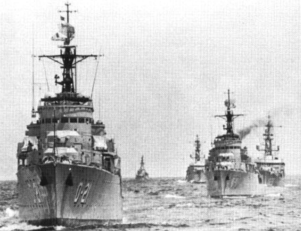 Ships underway during the UNITAS X exercise, in 1969. The coloum is lead by the Venezuelan destroyer ARV Zulia (D-21).